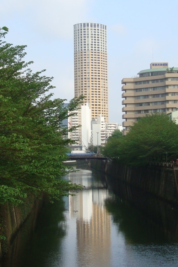 Meguro River at Nakameguro 2, Meguro city, Tokyo (Nakameguro Atlas Tower in the center)